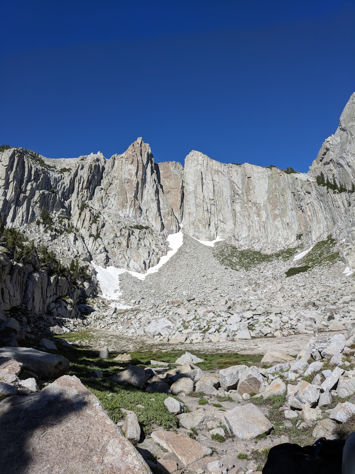 Lone Peak Cirque in the Wasatch mountains in Utah. Taken in June 2018